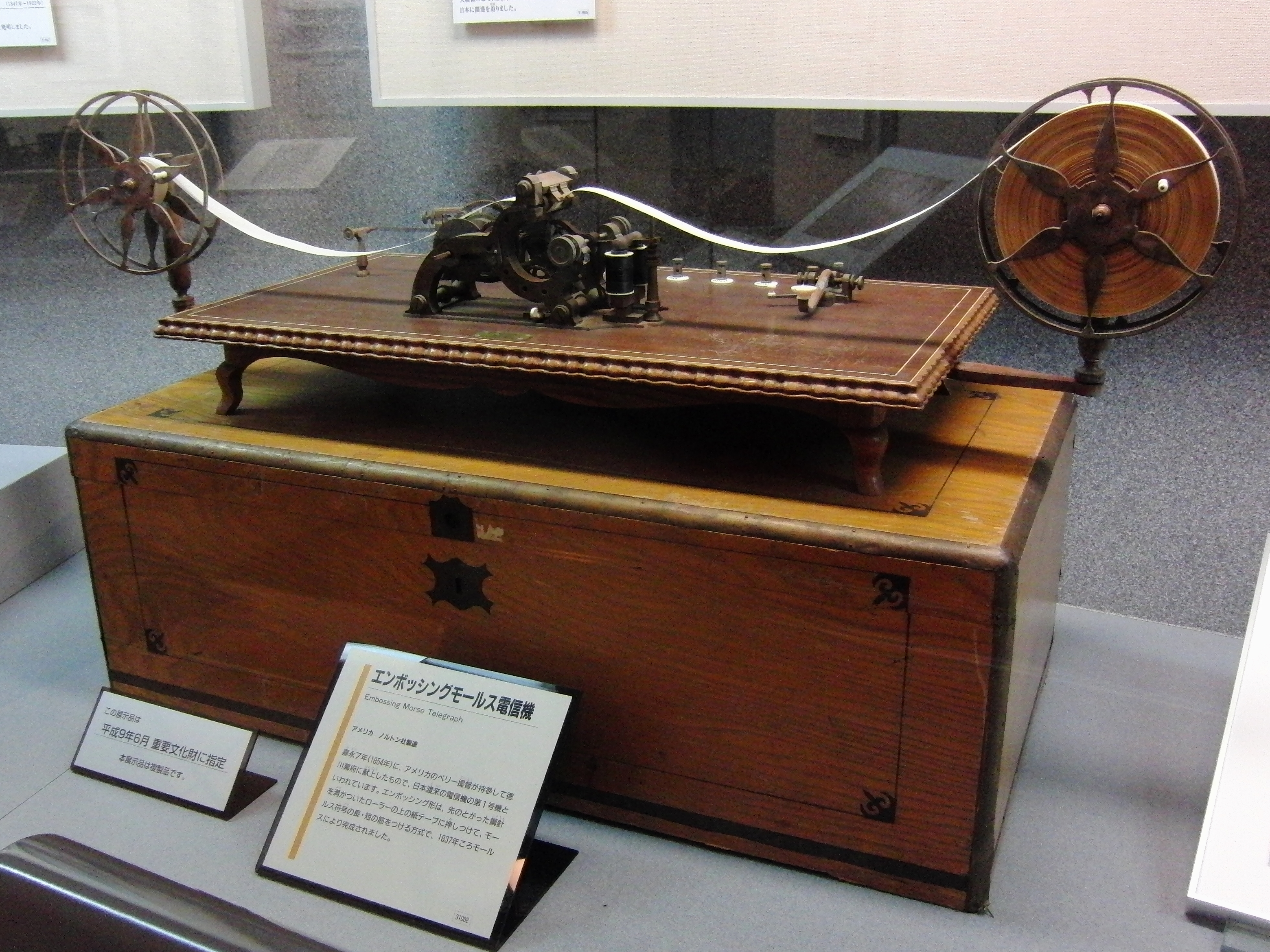 Embossing Morse Telegraph. Replica. One of the Important Cultural Properties of Japan. Exhibit in the Communications Museum, Tokyo.